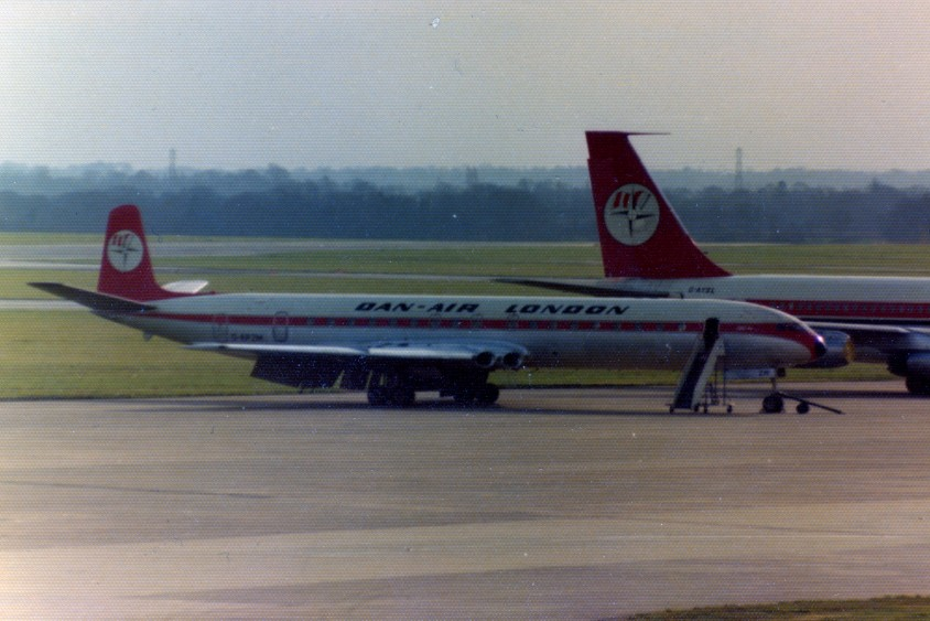 De Havilland Comet 4B registered G-APZM of Dan-Air at Manchester Airport, England